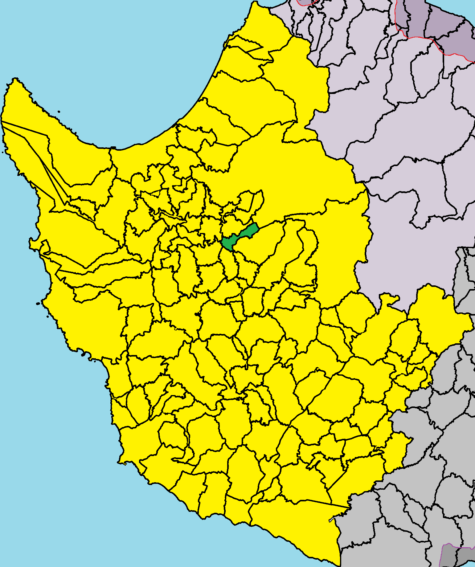 Sarama, Cyprus in Paphos District.